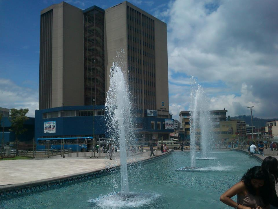 Faculty of Administrative Sciences, Central University of Ecuador